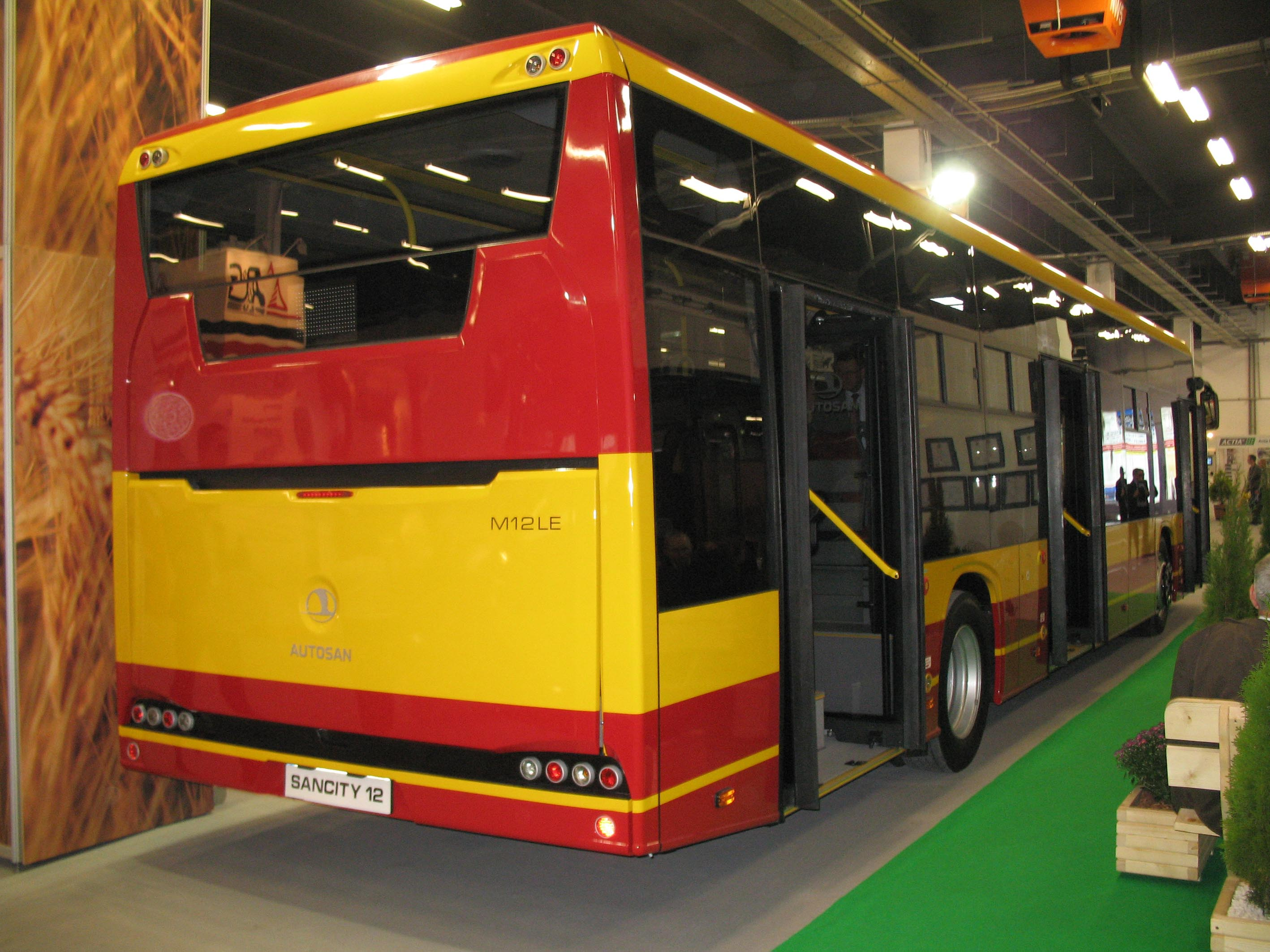 Autosan M12LE Sancity bus in Kielce, Poland. Built 2009. Transexpo 2009.